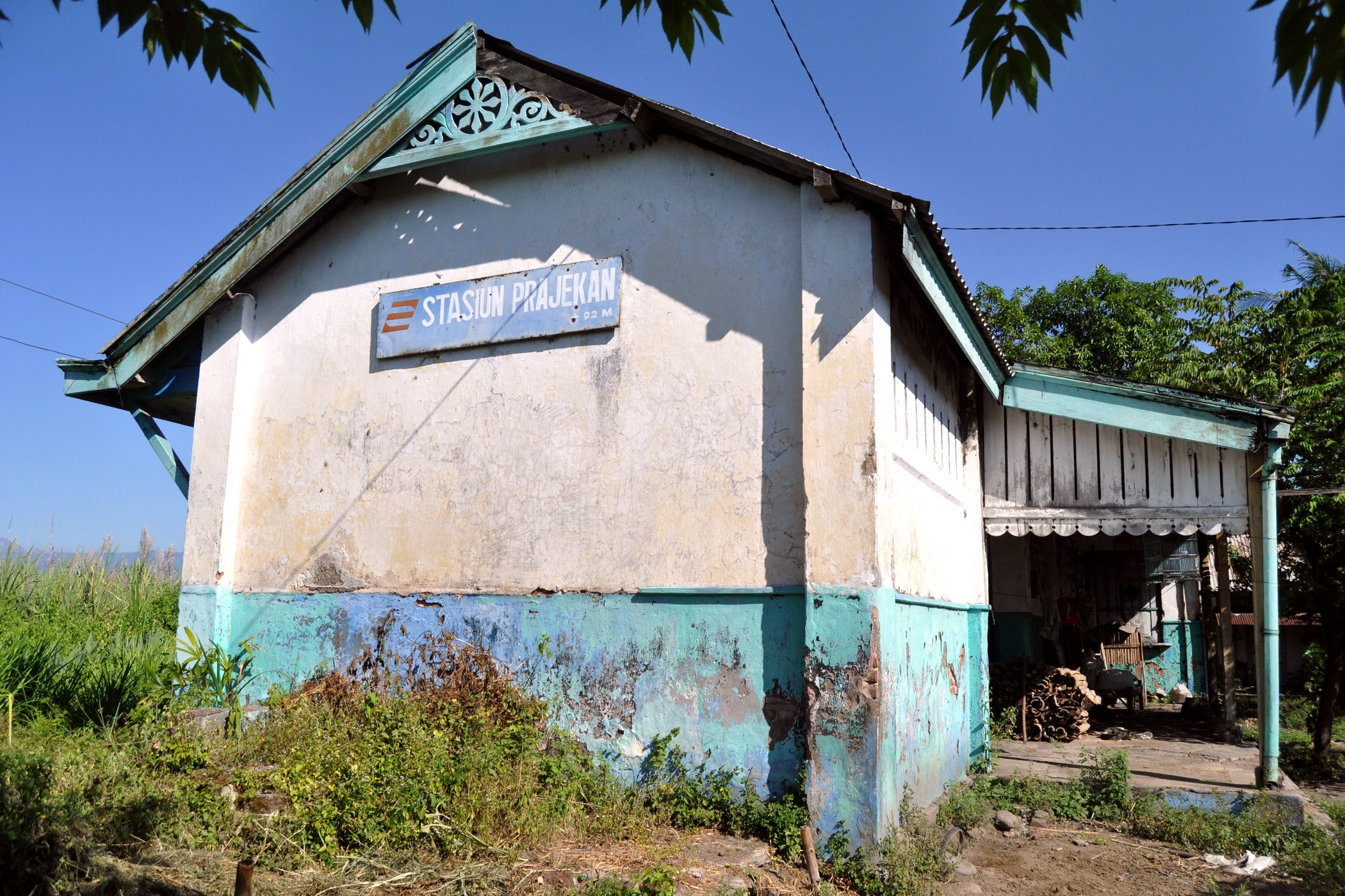 Ex Prajekan train station, closed since 2004, in Bondowoso Regency, East Java. Name signboard.